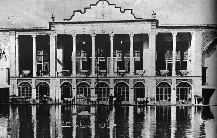 Nizamieh Palace in Tehran, main facade.